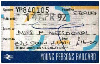 Handwritten Young Persons Railcard issued at an agency. Scanned from my own collection.